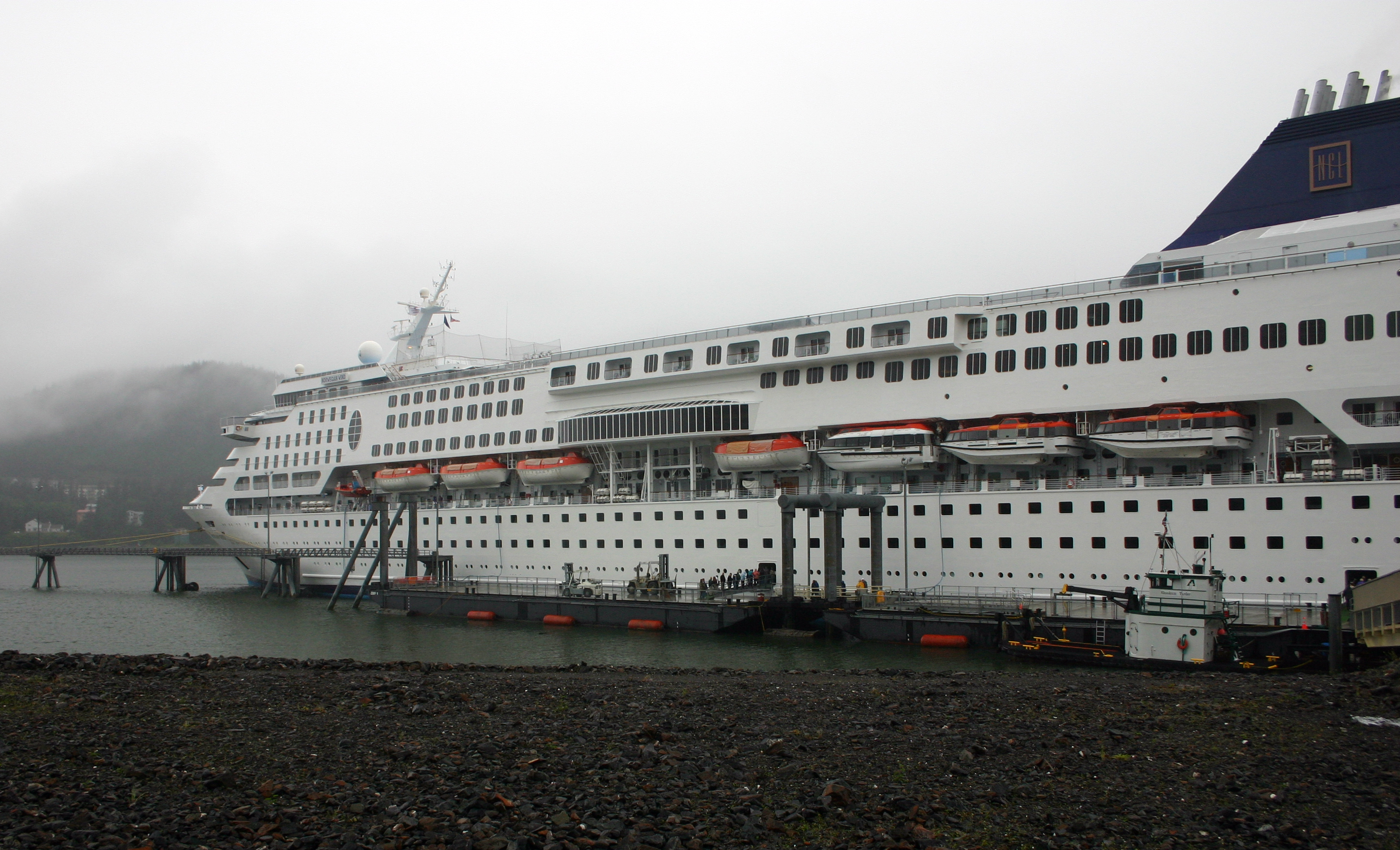 Author: Ahisgett; Source: Flickr